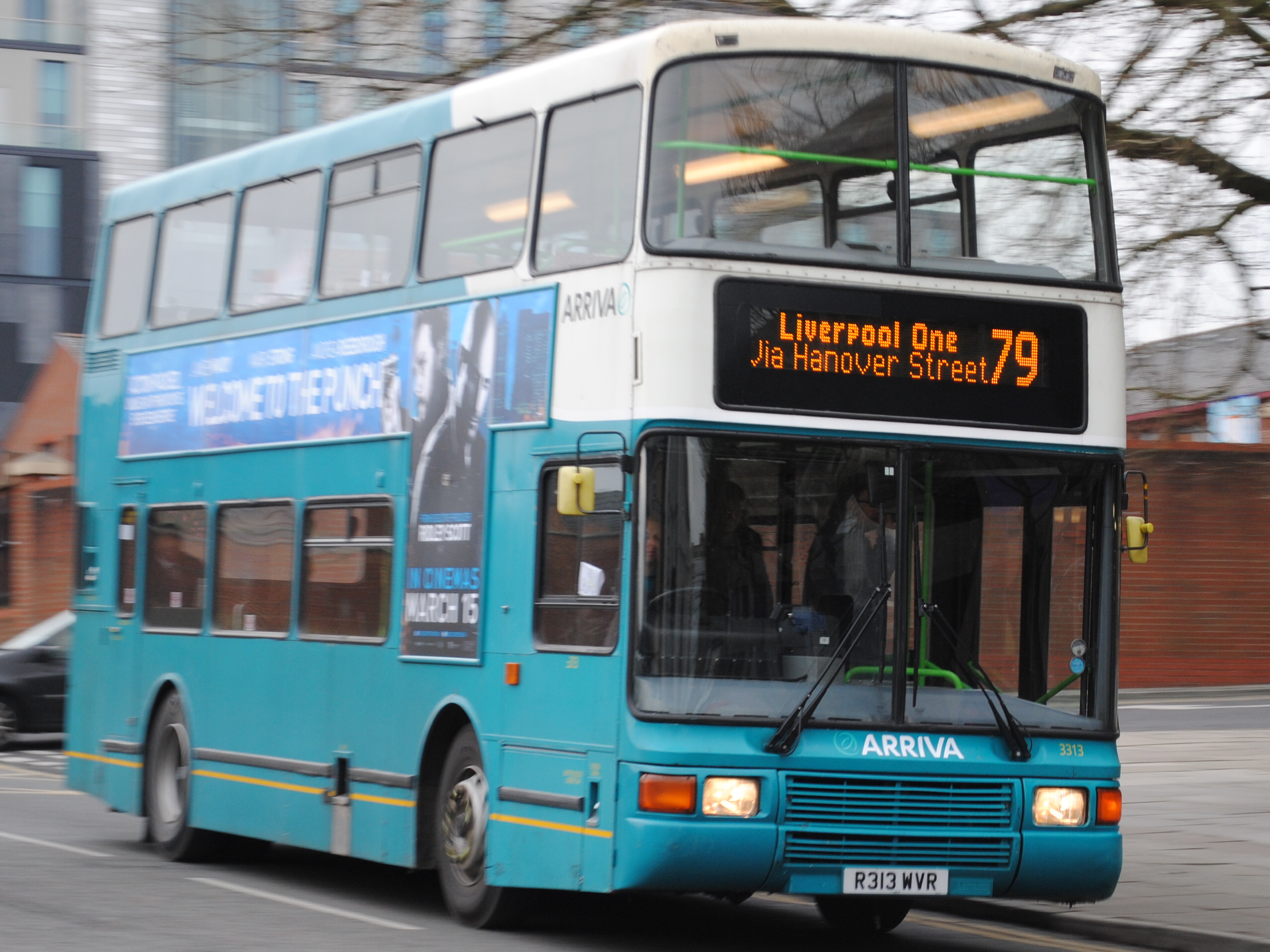 Volvo Olympian Northern Counties Palatine II. on rare 79 Halewood - Liverpool One Bus Station normally used VDL DB300 Wright Gemini 2